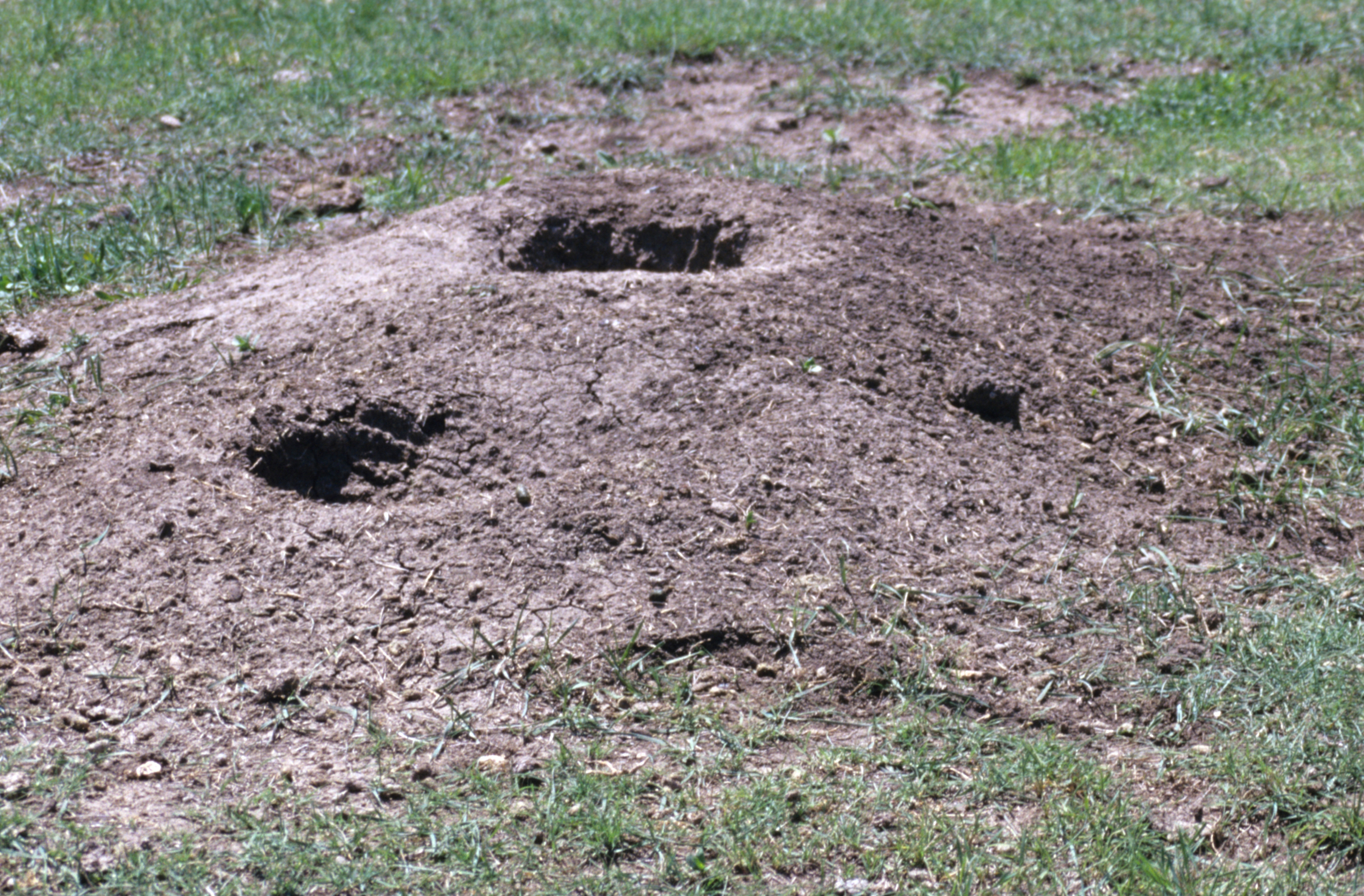 Burrows of white-tailed prairie dogs (Cynomys leucurus) dug into the ground. Colorado, USA.